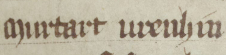 An excerpt from folio 63r of Oxford Jesus College MS 111. The excerpt concerns Muirchertach Ua Briain, King of Munster.